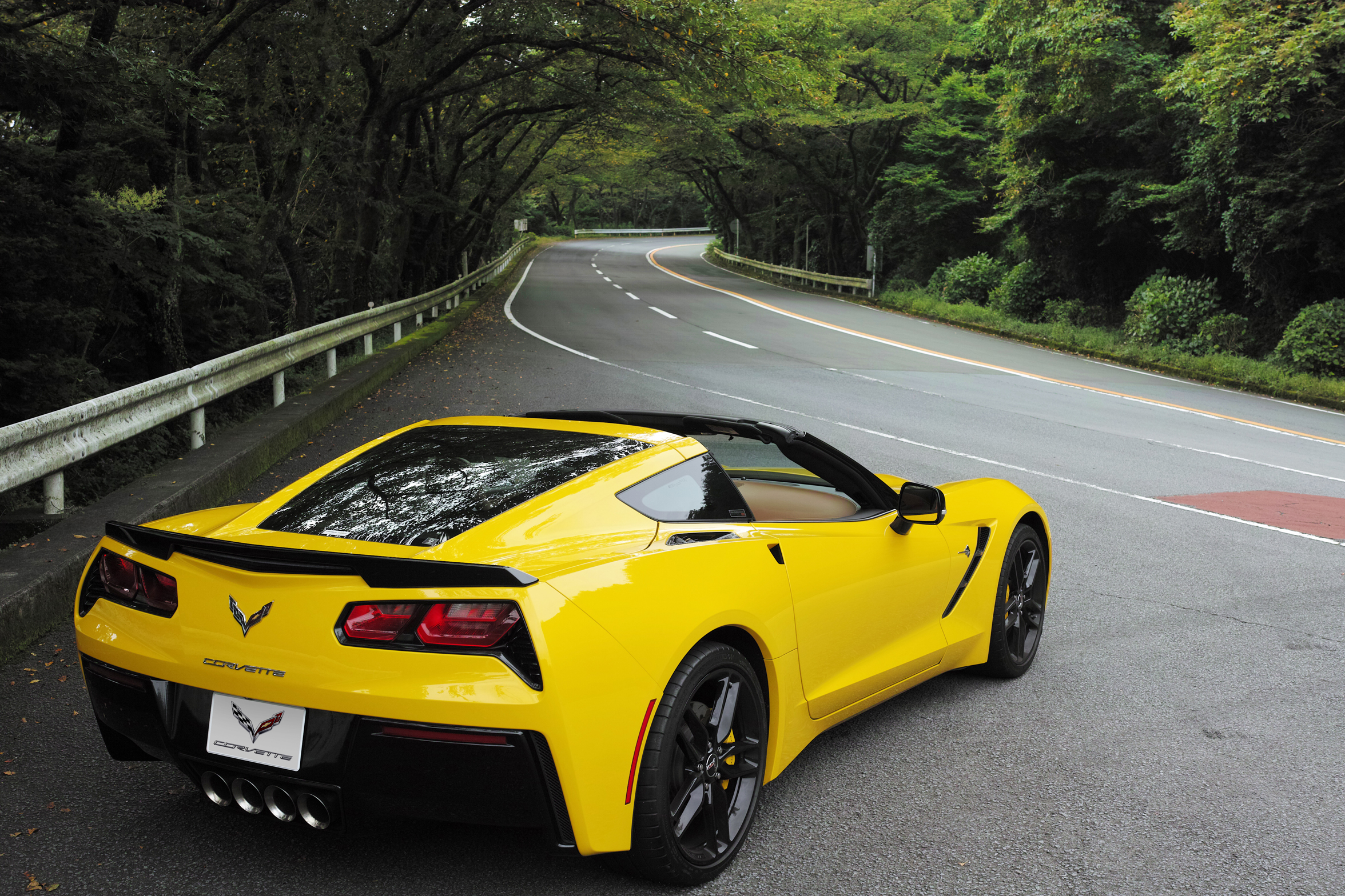 C7 Corvette Stingray Z51 2014 Rear view